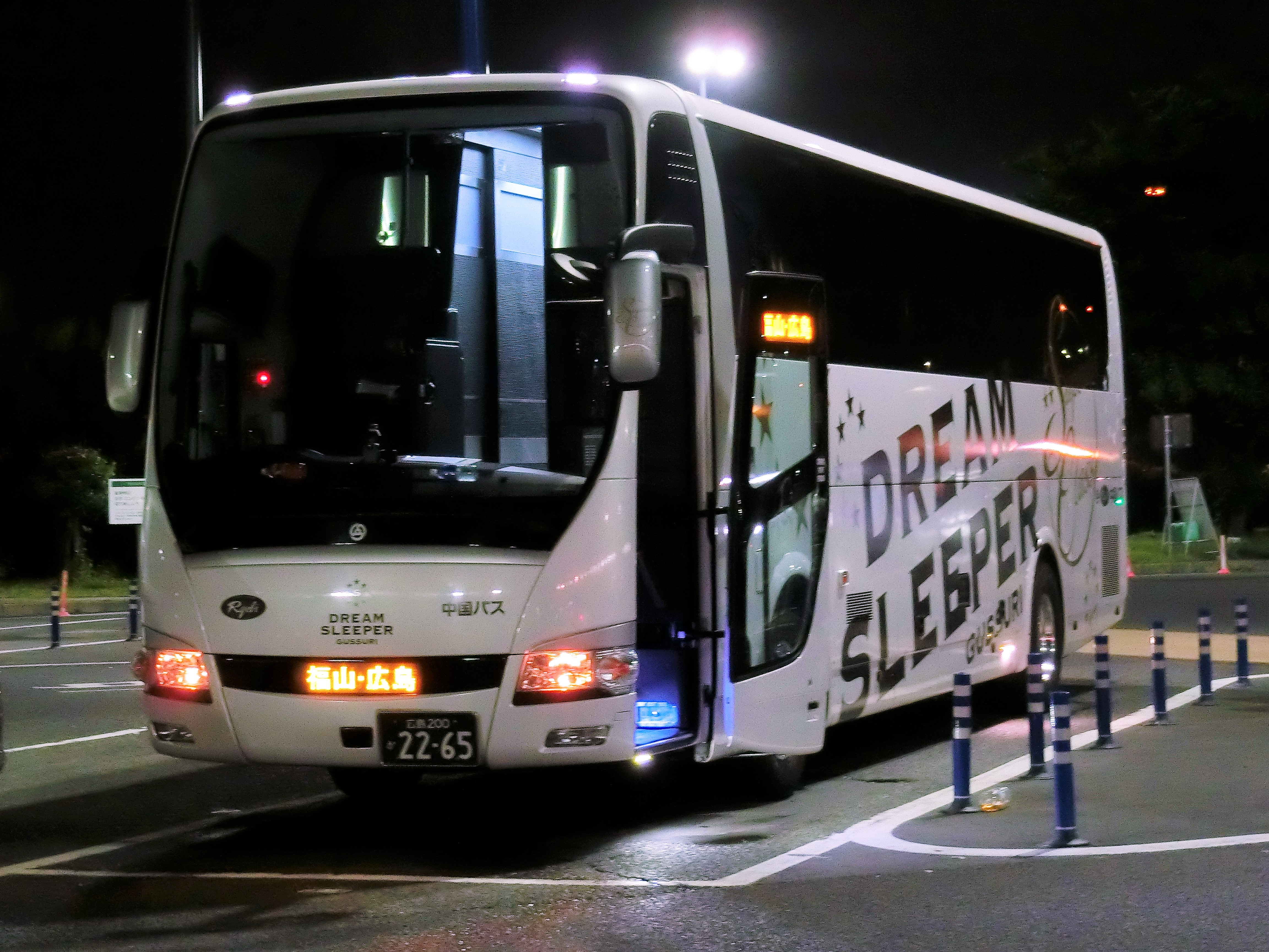 Dream Sleeper Bus of Chugoku Bus (Taken at Ebina Service Area )